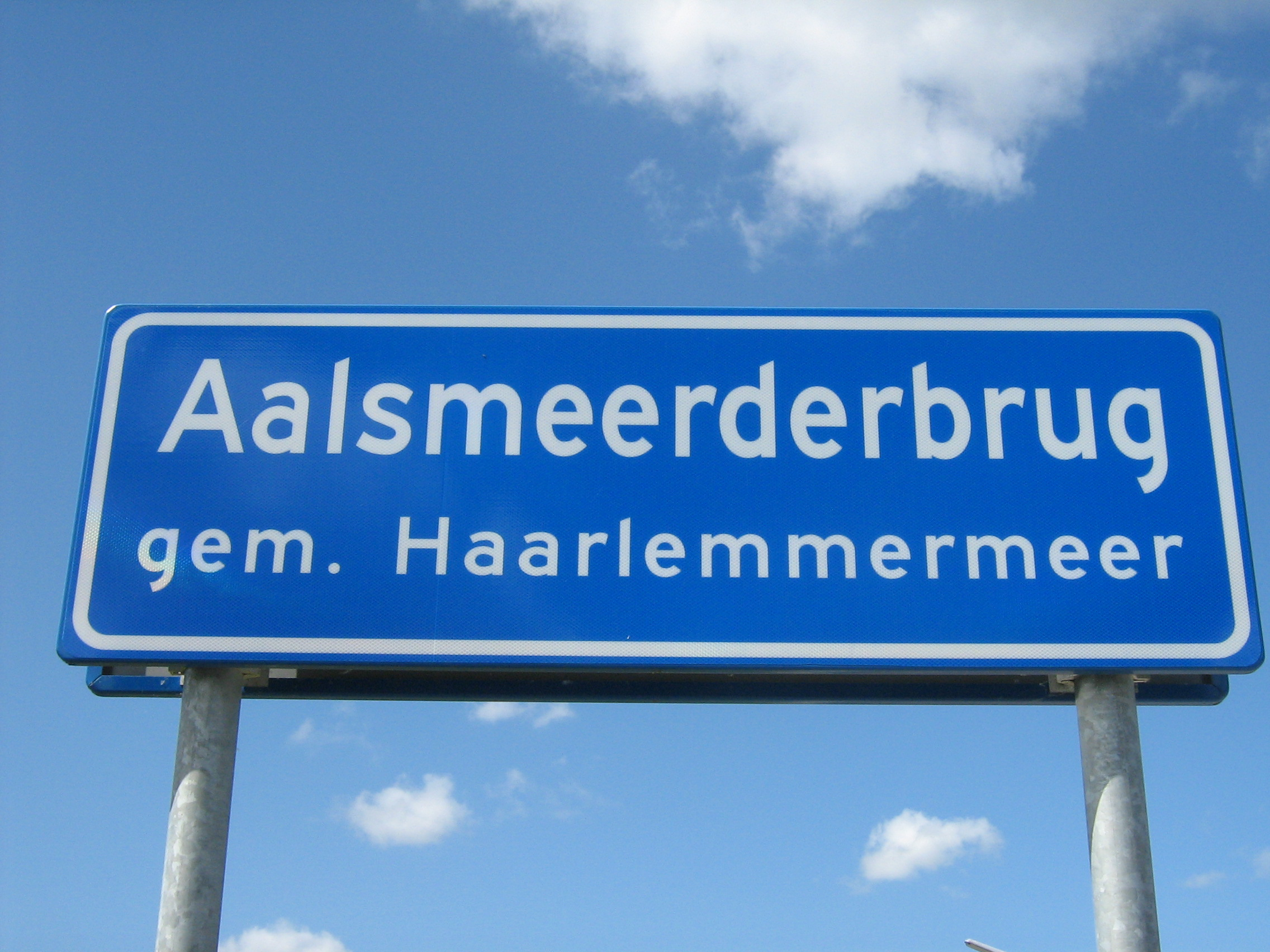 Town sign marking the northern boundary of the village of Aalsmeerderbrug, Haarlemmermeer municipality, the Netherlands.